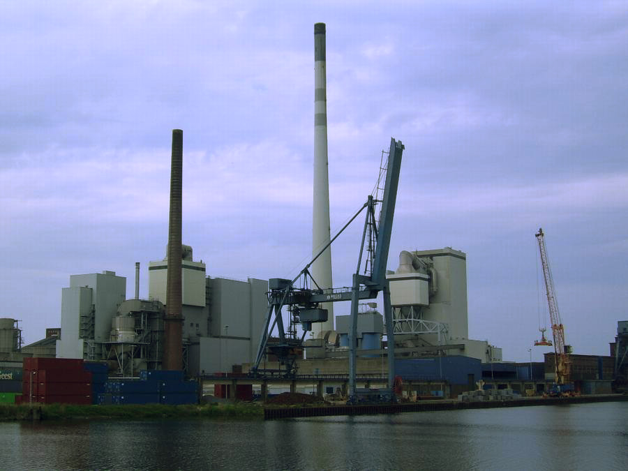 The power plant in the industrial port of Bremen, Germany